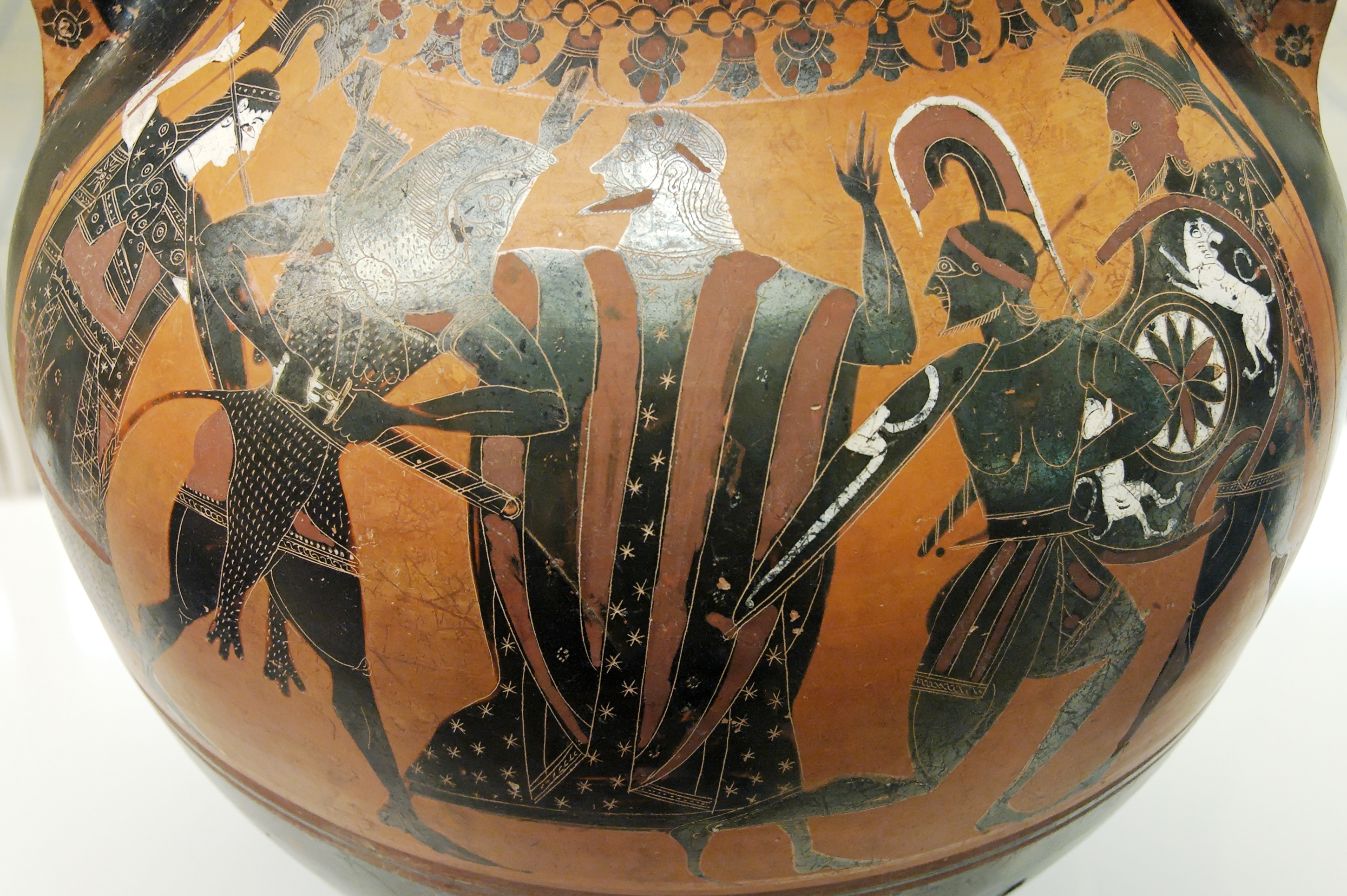 Herakles (centre-left) pursues Kyknos (centre-right) while Athena (left) and Ares (right) stand ready to join in; Zeus (centre) parts the fighters. Attic black-figured amphora, ca. 550–530 BC. From Kameiros in Rhodes.